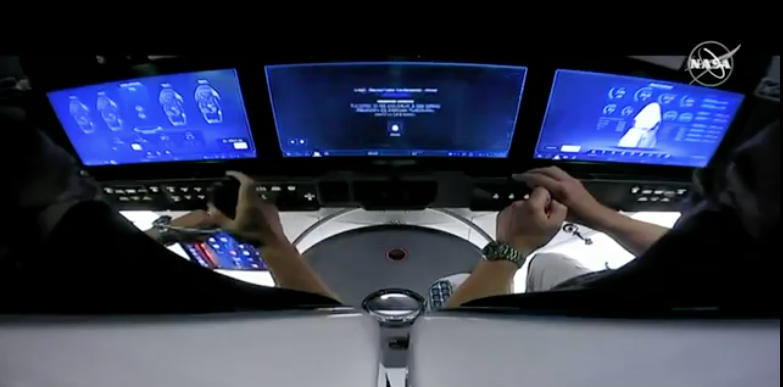 Interior of Crew Dragon Demo 2 shortly after its crew opened the top hatch. Screen shot from NASA's live coverage of the SpaceX Crew Dragon Demo 2 docking with the International Space Station on Sunday morning EDT, May 31, 2020